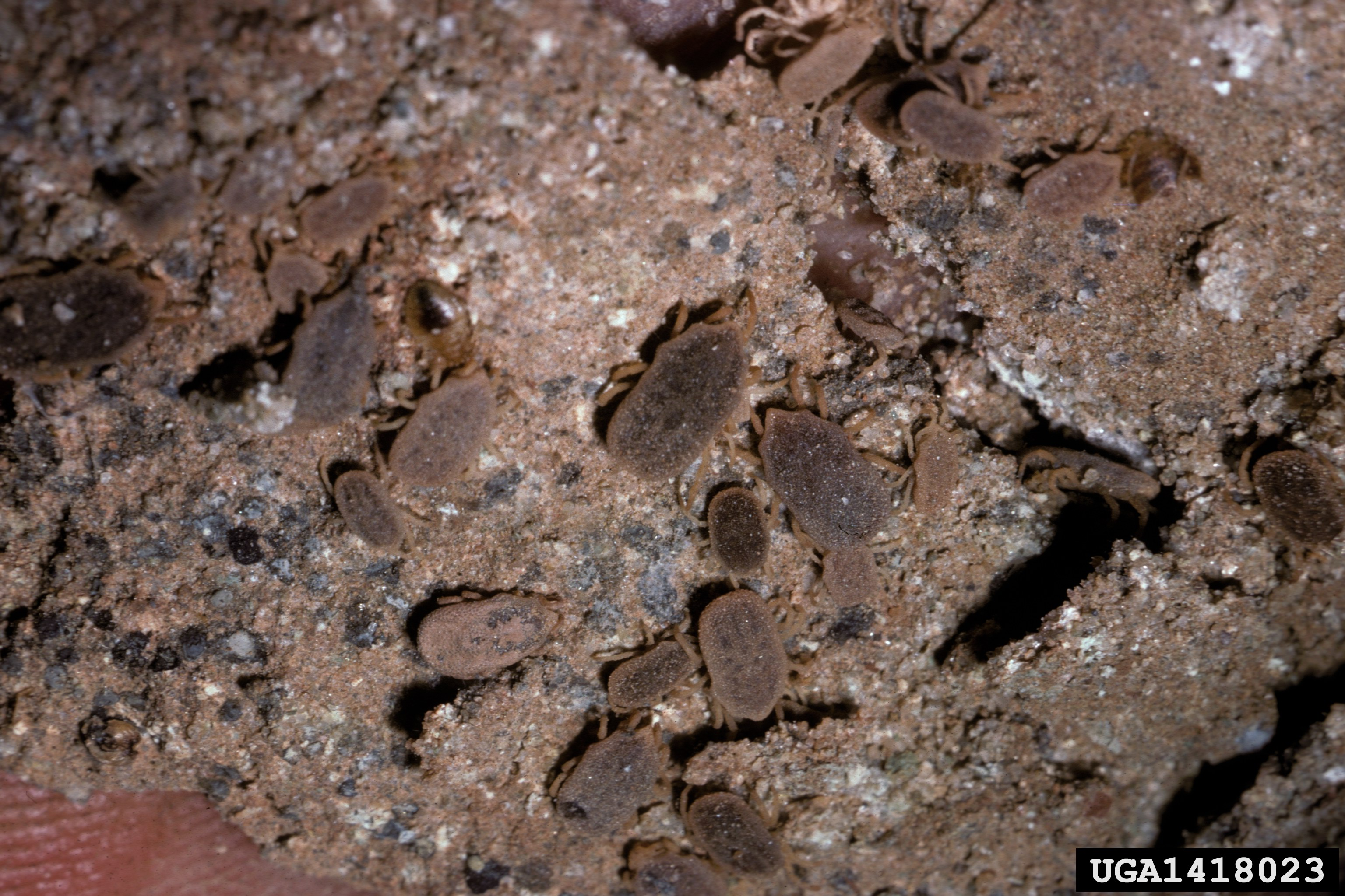 Ornithodoros concanensis, parasite of Livestock and Poultry